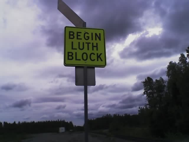 Picture of a typical DTC block sign on the Alaska Railroad